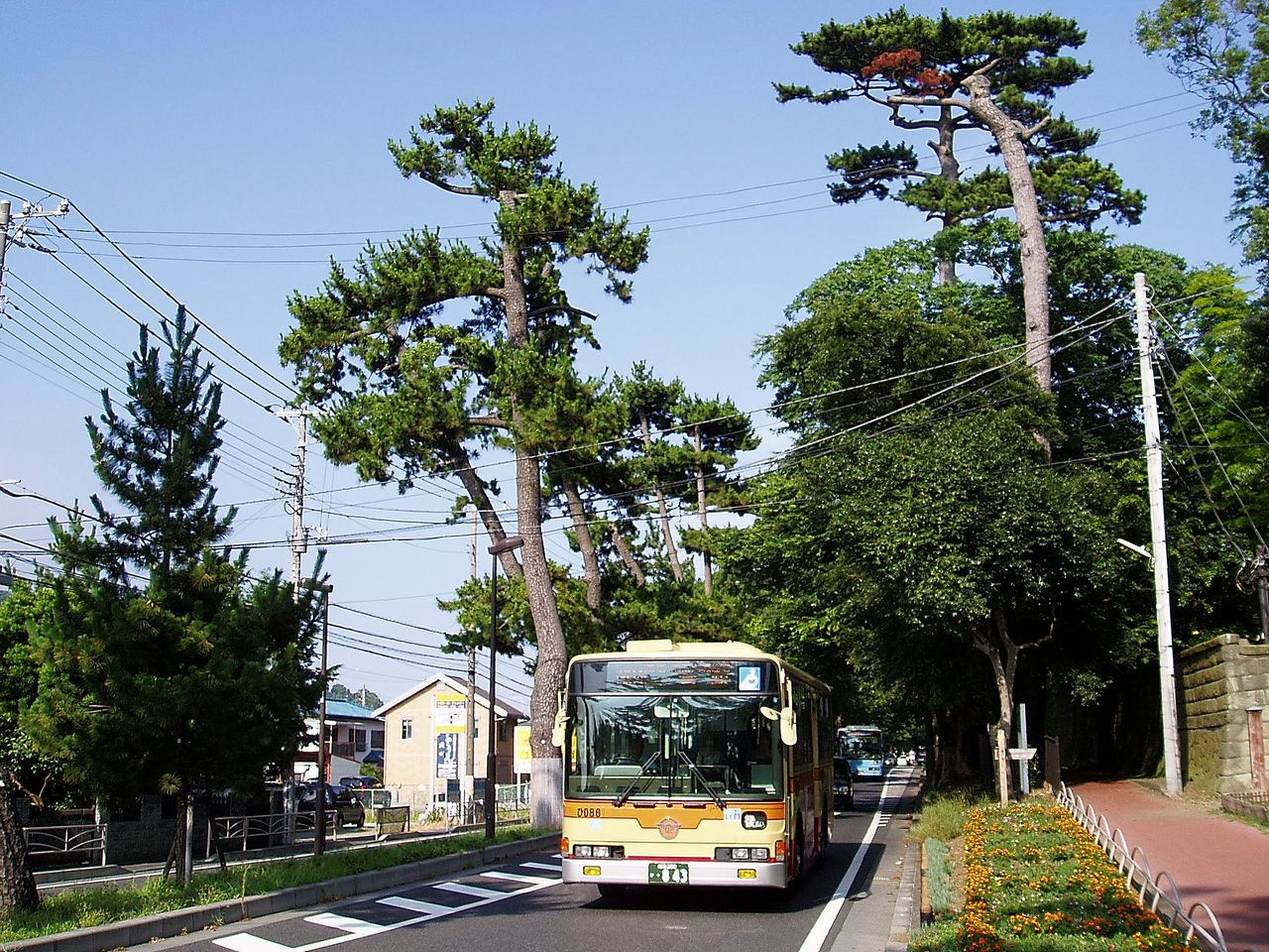 Kanagawa Chuo Kotsu Hi086 Mitsubishi KL-MP35JM at Oiso,Kanagawa